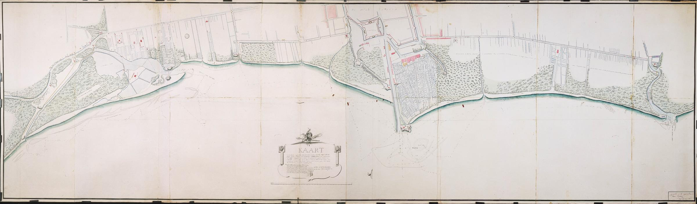 According to the Leupe catalogue (NA), the original title reads: Kaart als voren, referring to the title of VEL0421: Kaart van de Stranden en gesamentlyke situatie der bewesten en beoosten 't Kasteel Batavia gelegene landen en tuynen, van den Mond der Rivier Anké af tot voorby den Mond der rivier van Antsjol en Slingerland. Notes on reverse: No. 6 Kasteel van Batavia en stranden beoosten en bewesten hetzelve Register 2 Deel 1 Folio 3 Portefeul [handwritten on a blue label] / No. 201. Copy of the chart by C.F. Reimer. Topographical names listed on this chart: Batterij Bottelier, Rivier van Antsjol, Batterij Zeelucht, Batterij Slingerland, Rotterdamer Poort, Fort Antsjol, Tandjong Priok, 't Kasteel, Saphier, Parel, Diamant, Robijn, Cuylenburg, Zeeburg, Groningen, Kampen, Overijsel, Batterij van Ploederhuijsie [?], Waterkasteel, Dieren, Batterij de Fluyt, Rivier Ankee, Grote Rivier.